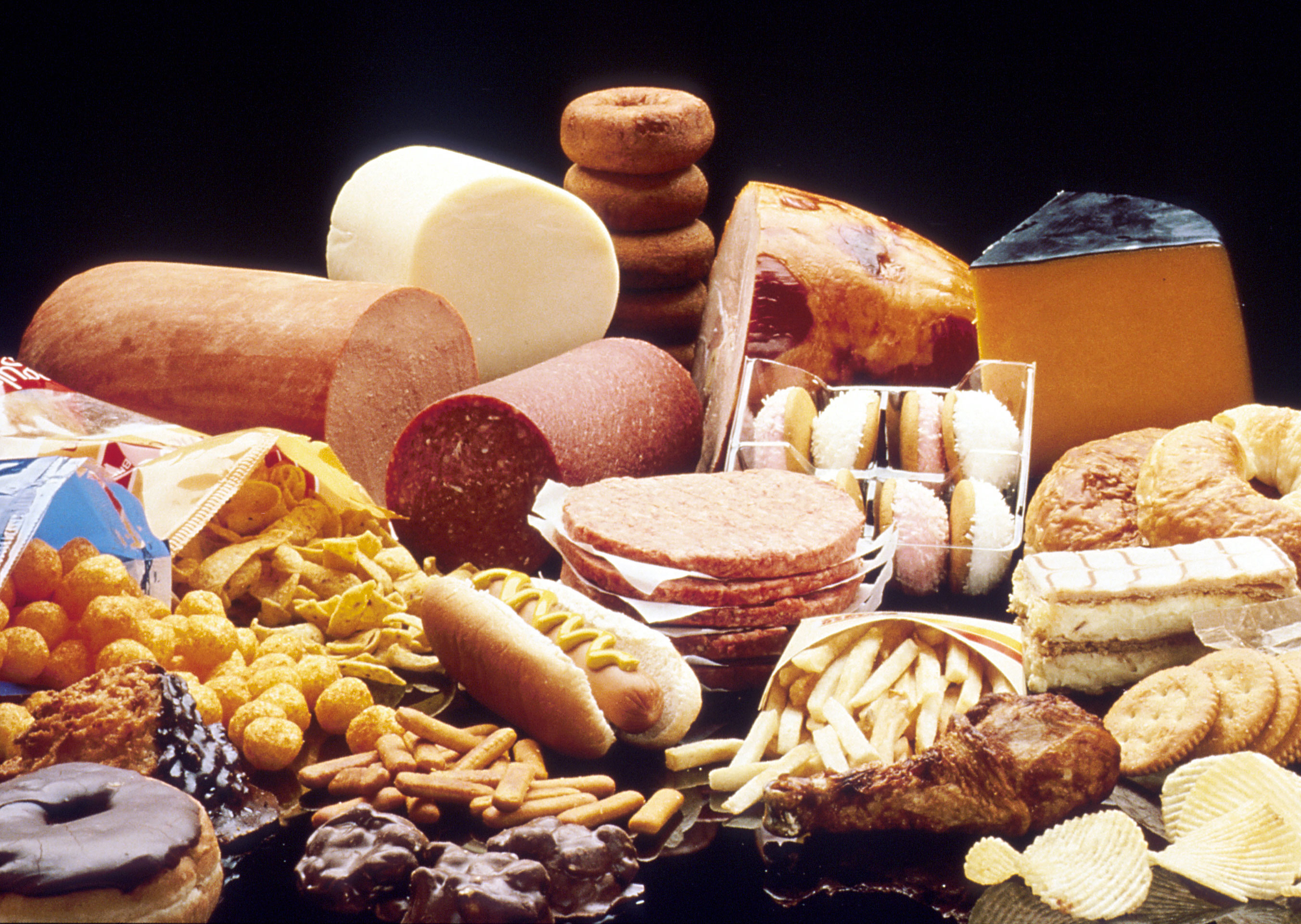 A display of high fat foods such as cheeses, chocolates, lunch meat, french fries, pastries, doughnuts, etc. Reuse Restrictions: None - This image is in the public domain and can be freely reused. Please credit the source and/or author listed above.